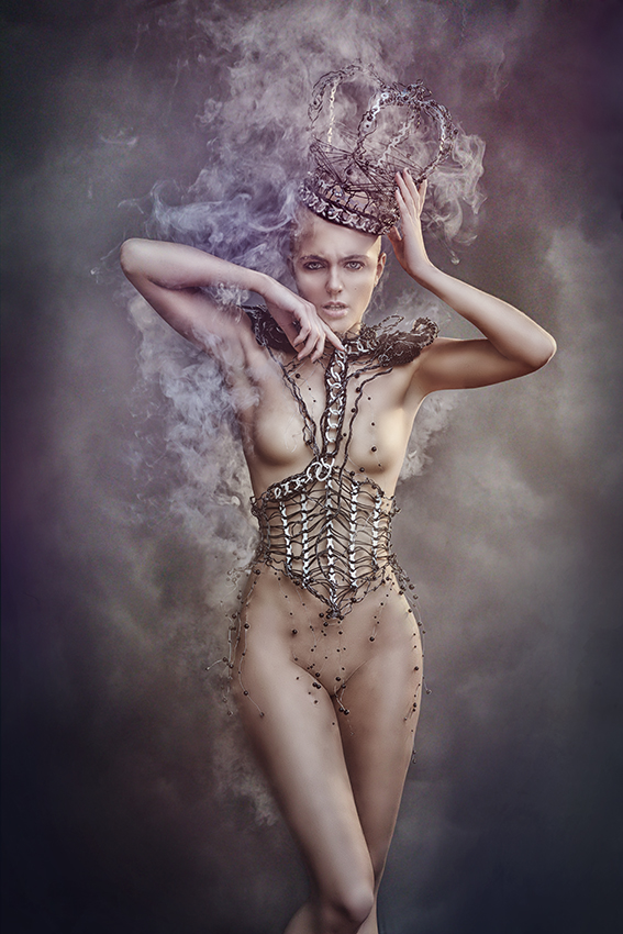 Wired Future